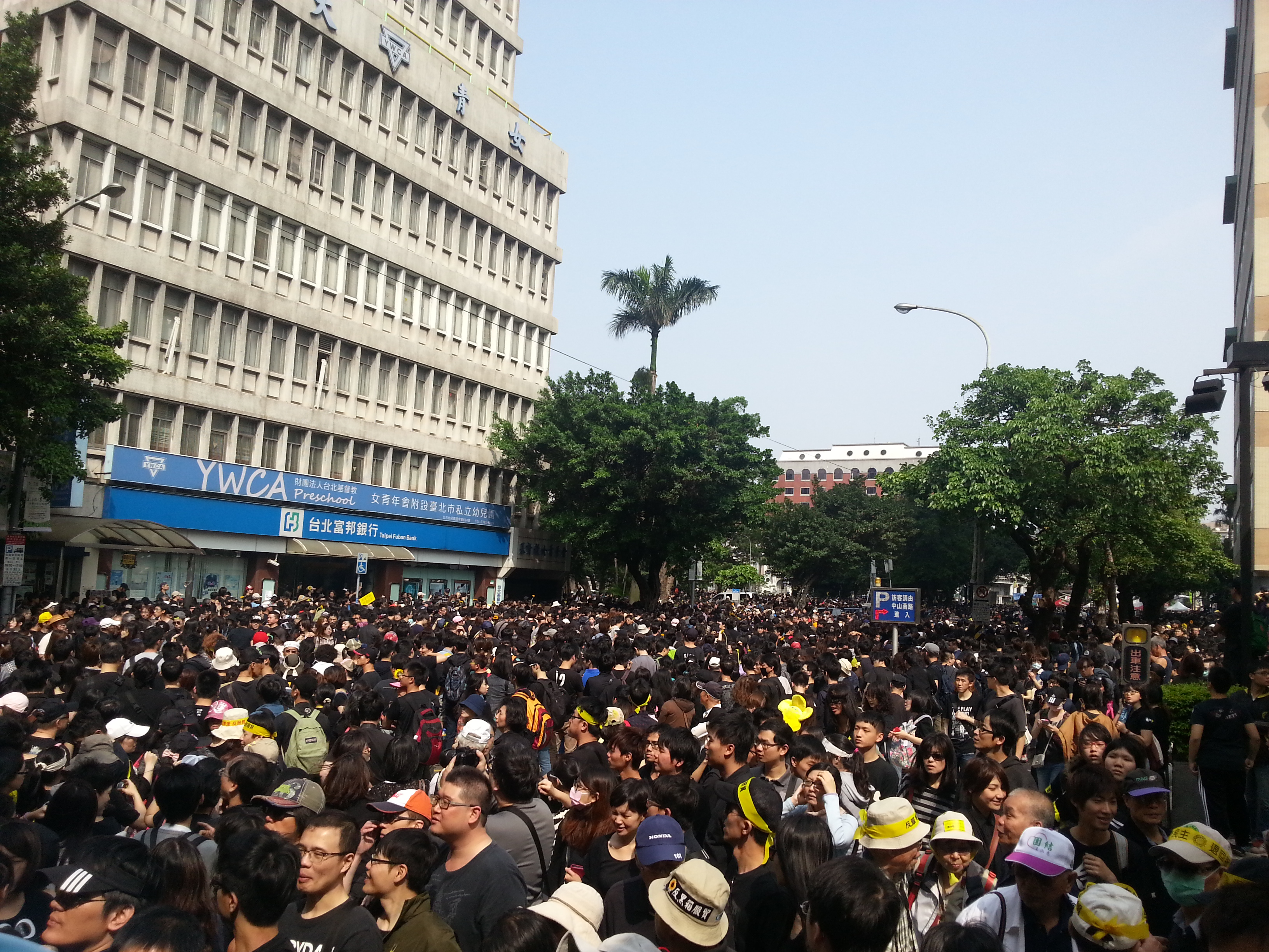 Protesters near NTU hospital in Taipei Taiwan